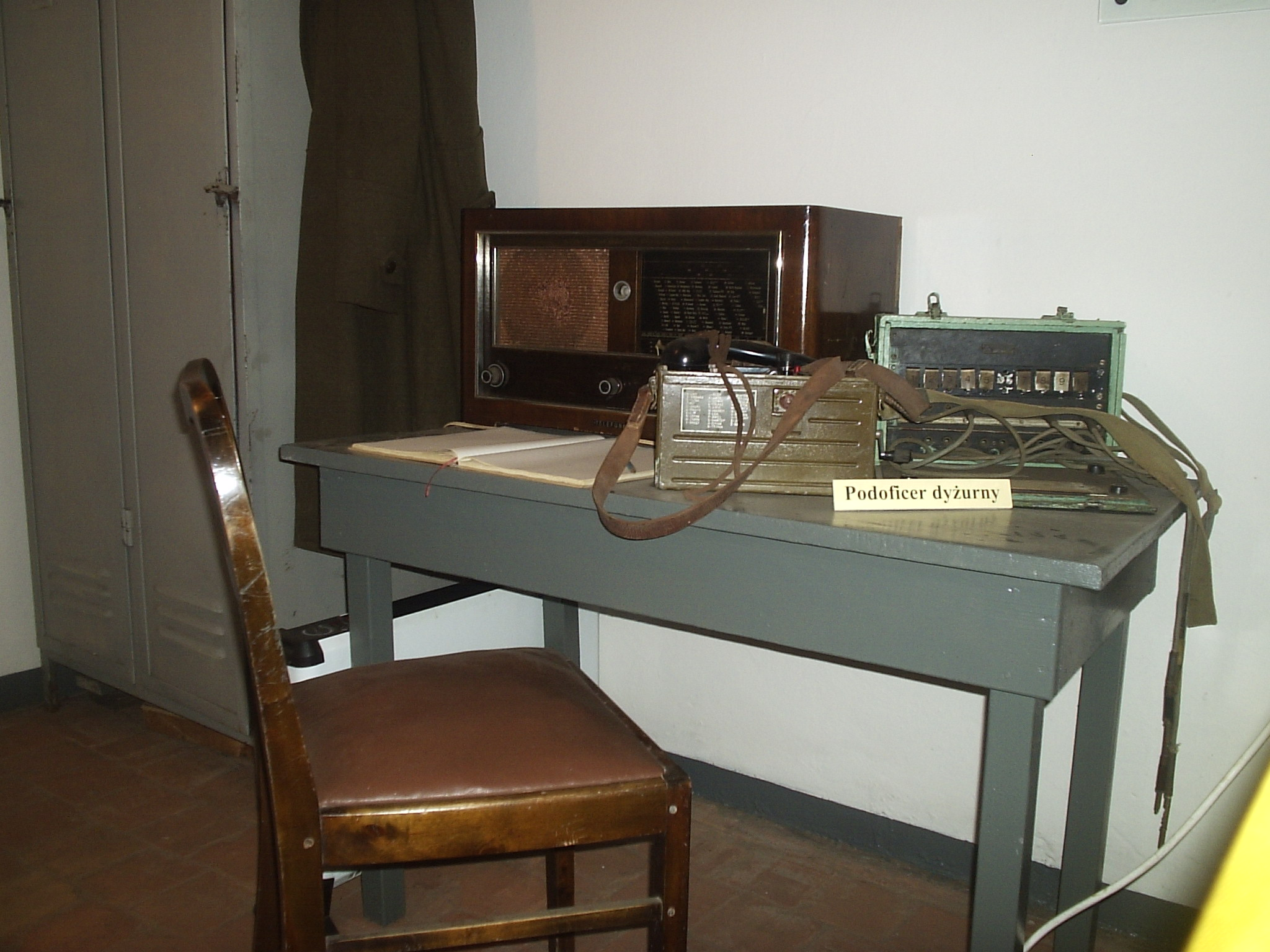 Gdańsk Westerplatte, Poland